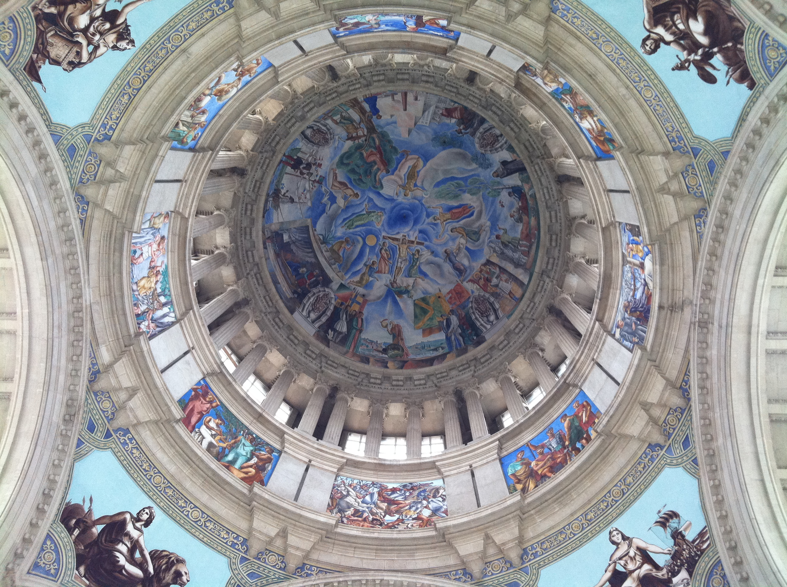 Interior rooms of Museu Nacional d'Art de Catalunya